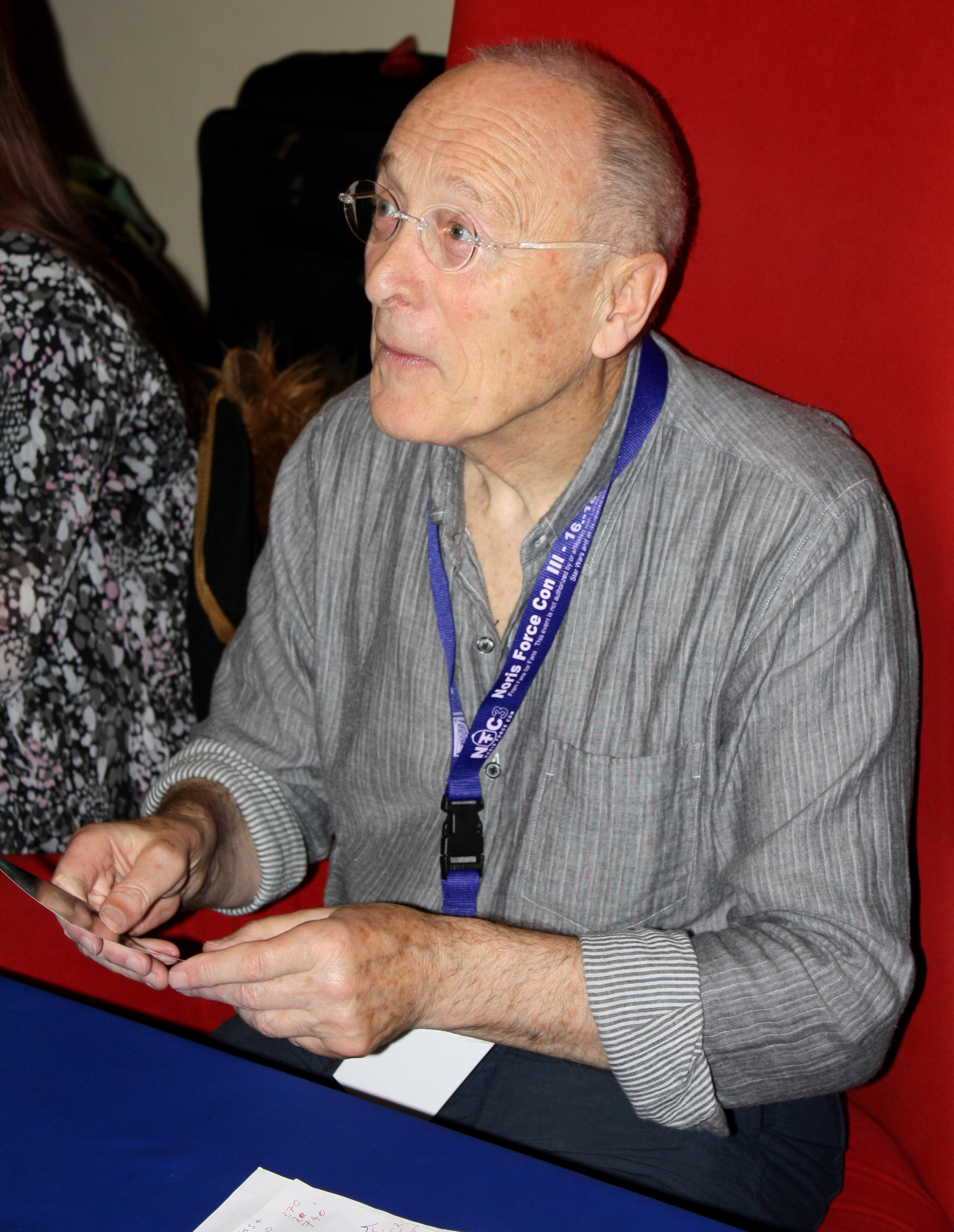 Michael Culver, who portrayed Captain Lorth Needa in Star Wars Episode V: The Empire Strikes Back, at Noris Force Con III in Nürnberg, Germany.